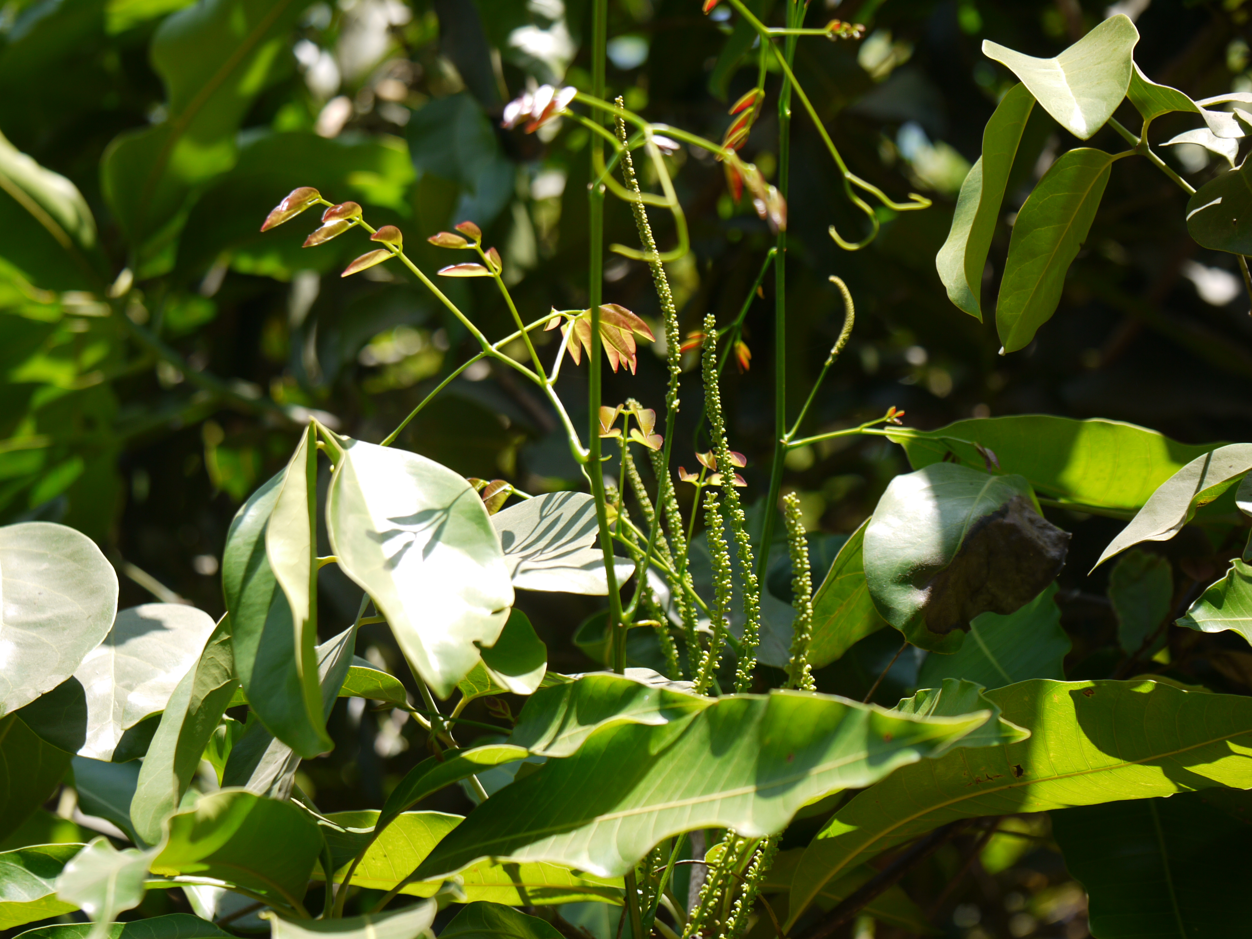 Fabaceae (pea, or legume family) » Entada rheedei en-TAH-duh -- a Malabar name used by van Rheede for the genus of giant seeds that float across oceans REED-ee-eye -- named for Hendrik Adriaan van Rheede, Dutch naturalist, governor of Cochin in India commonly known as: African dream herb, nicker bean, sea bean, St.Thomas bean • Hindi: barabi, chian, घीला ghila, गीला gila • Kannada: ganape kaayi • Malayalam: മലമഞ്ചാടി malamanjadi, പരണ്ടവള്ളി paranda valli, പെരുംകക്ക് വള്ളി perim-kakku valli • Marathi: गारभी garabhi, गारबी garabi, गारंबी garambi, गरूडवेल garudwel • Tamil: இரிக்கி irikki • Telugu: gilla teega, tikka tivva Native to: tropical and subtropical regions bordering the Indian Ocean References: Flowers of India • DDSA